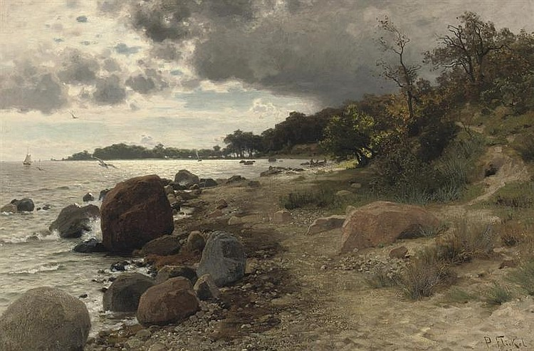 The rocky coastline